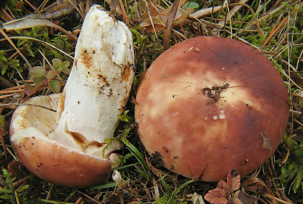 Russula vesca Fr. Image location: Medelpad, Sweden Recognized by sight: Very hard-fleshed, smells like “xerampelina” For more information about this, see the observation page at Mushroom Observer.